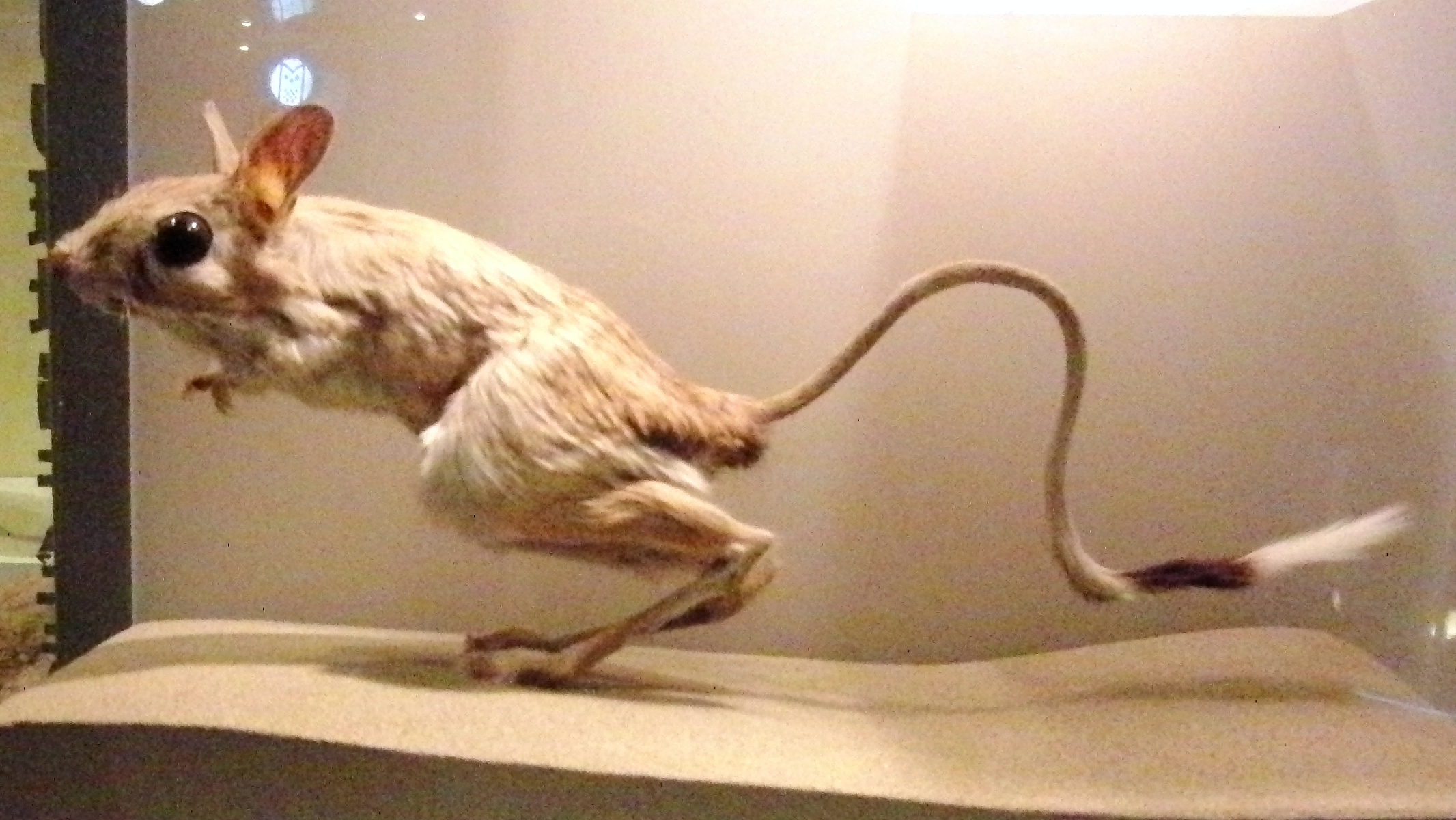 Stuffed specimen of Greater Egyptian jerboa (Jaculus orientalis). Exhibit in the National Museum of Nature and Science, Tokyo, Japan.